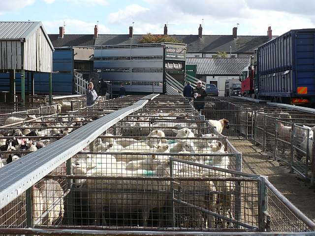 Counting sheep at Newport Cattle Market Following the auction, the sheep are being counted before transportation away from the market.